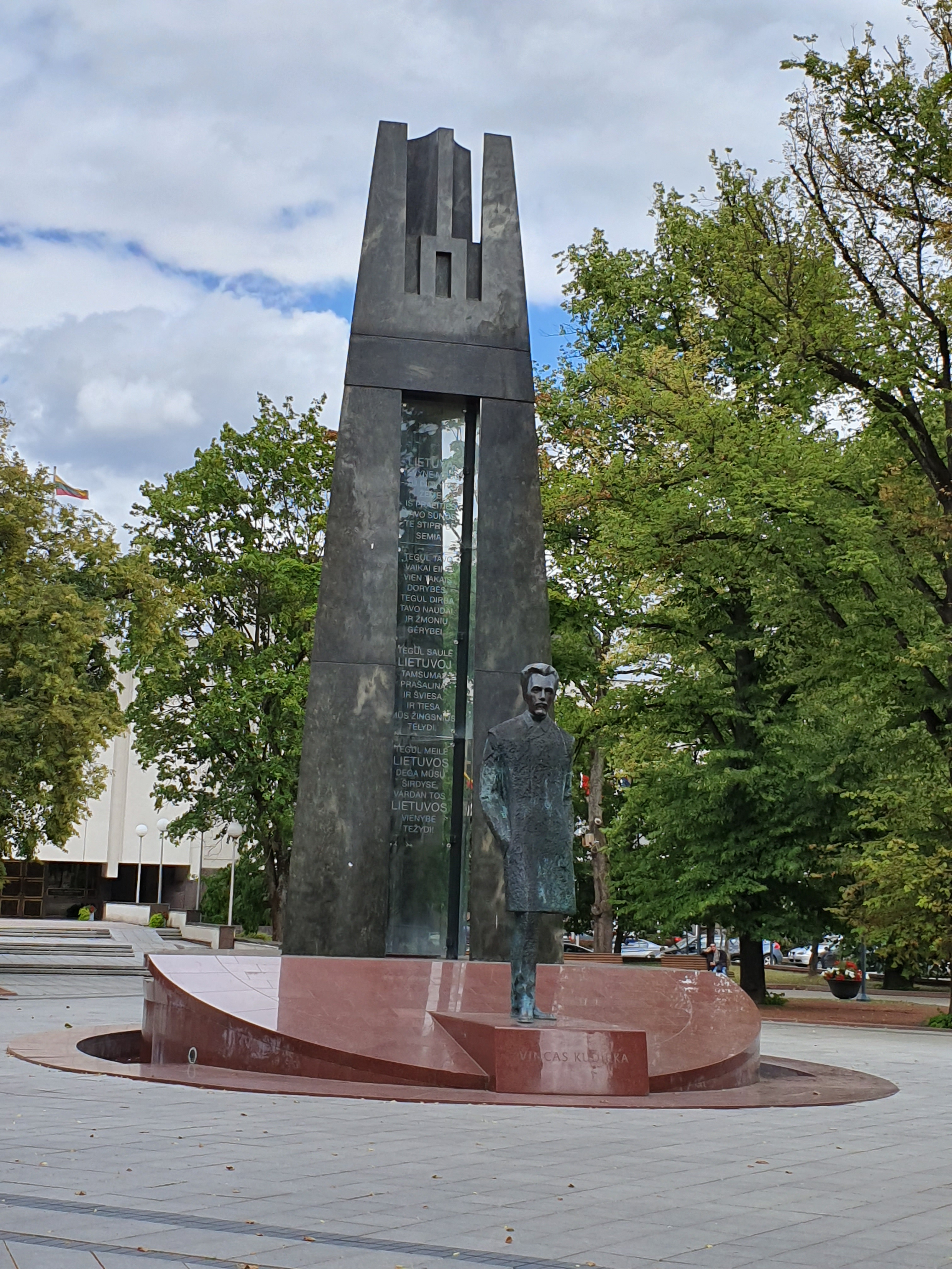 Vincas Kudirka Square Monument in Vilnius, Lithuania.